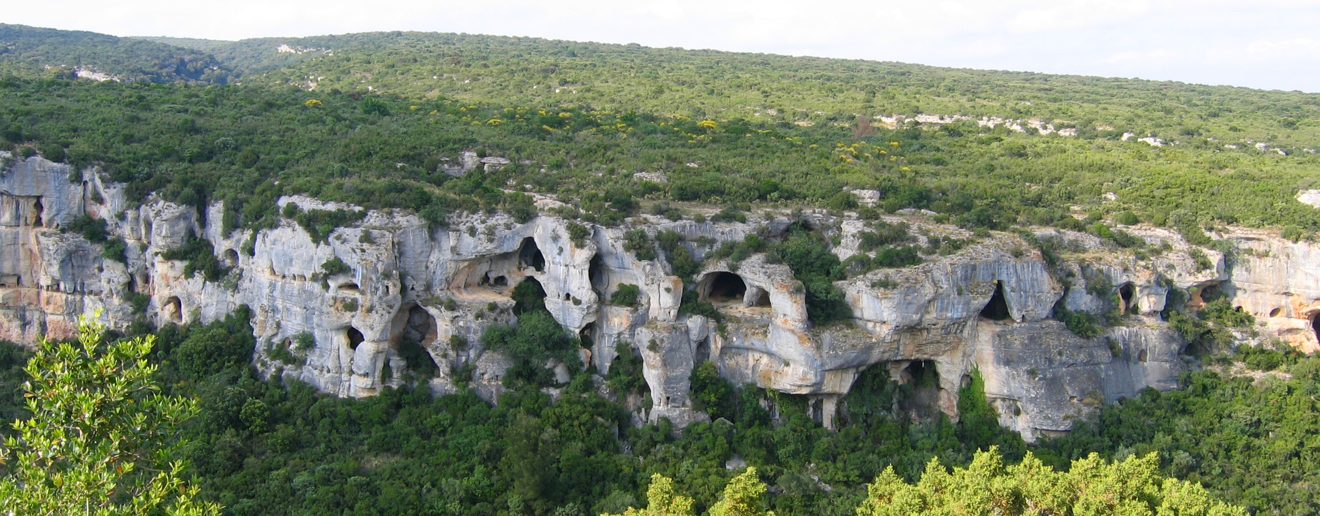 Karst landscape near Minerve / Hérault / France